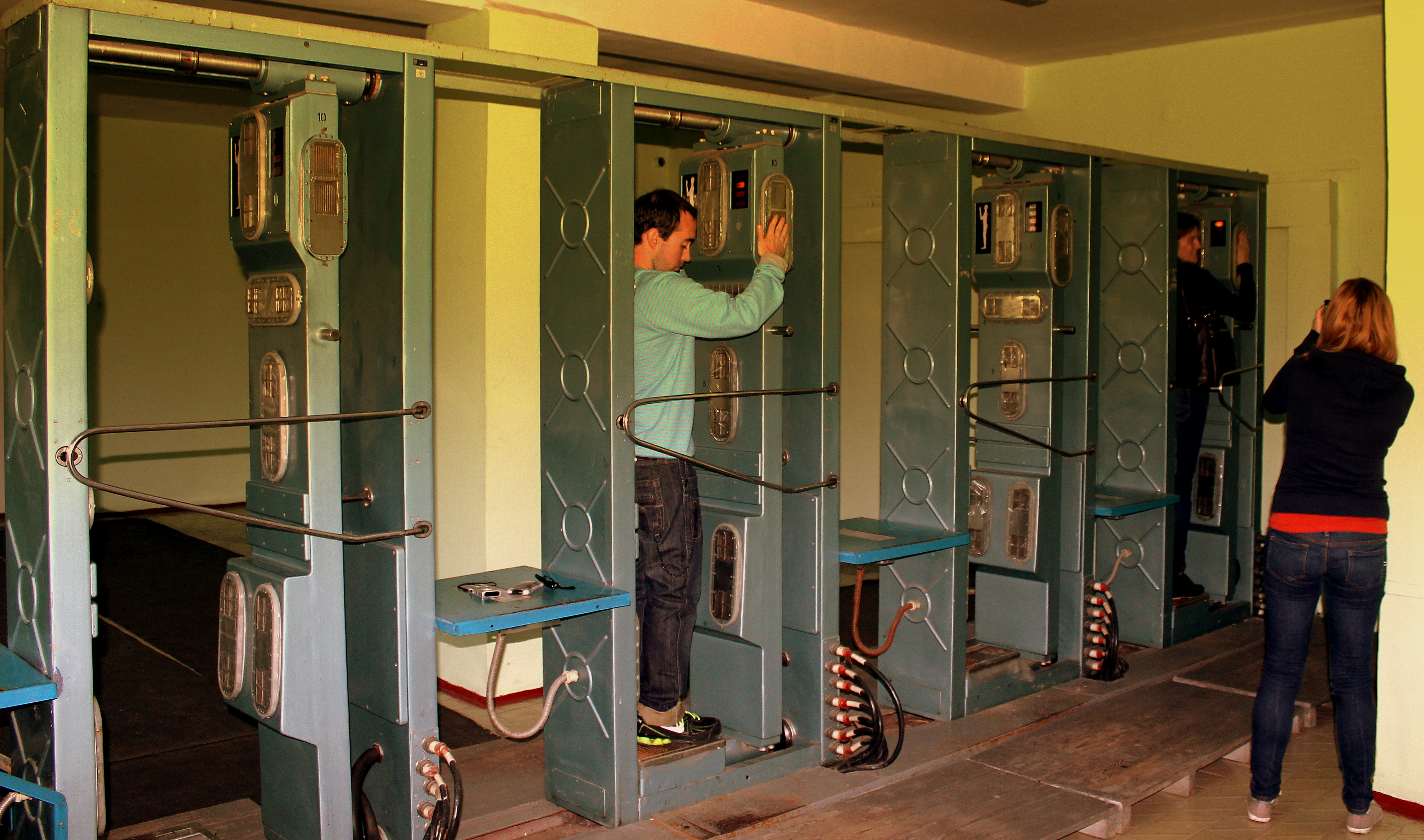 ALL VISITORS MUST DO THIS TO BE ALLOWED THROUGH THE CHECK POINT.